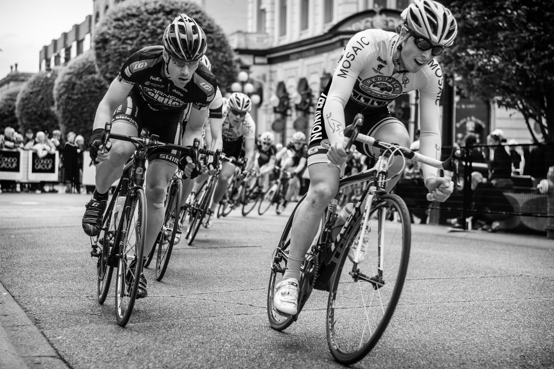 Tour de Victoria cycling race 2012. Victoria, British Columbia, Canada.